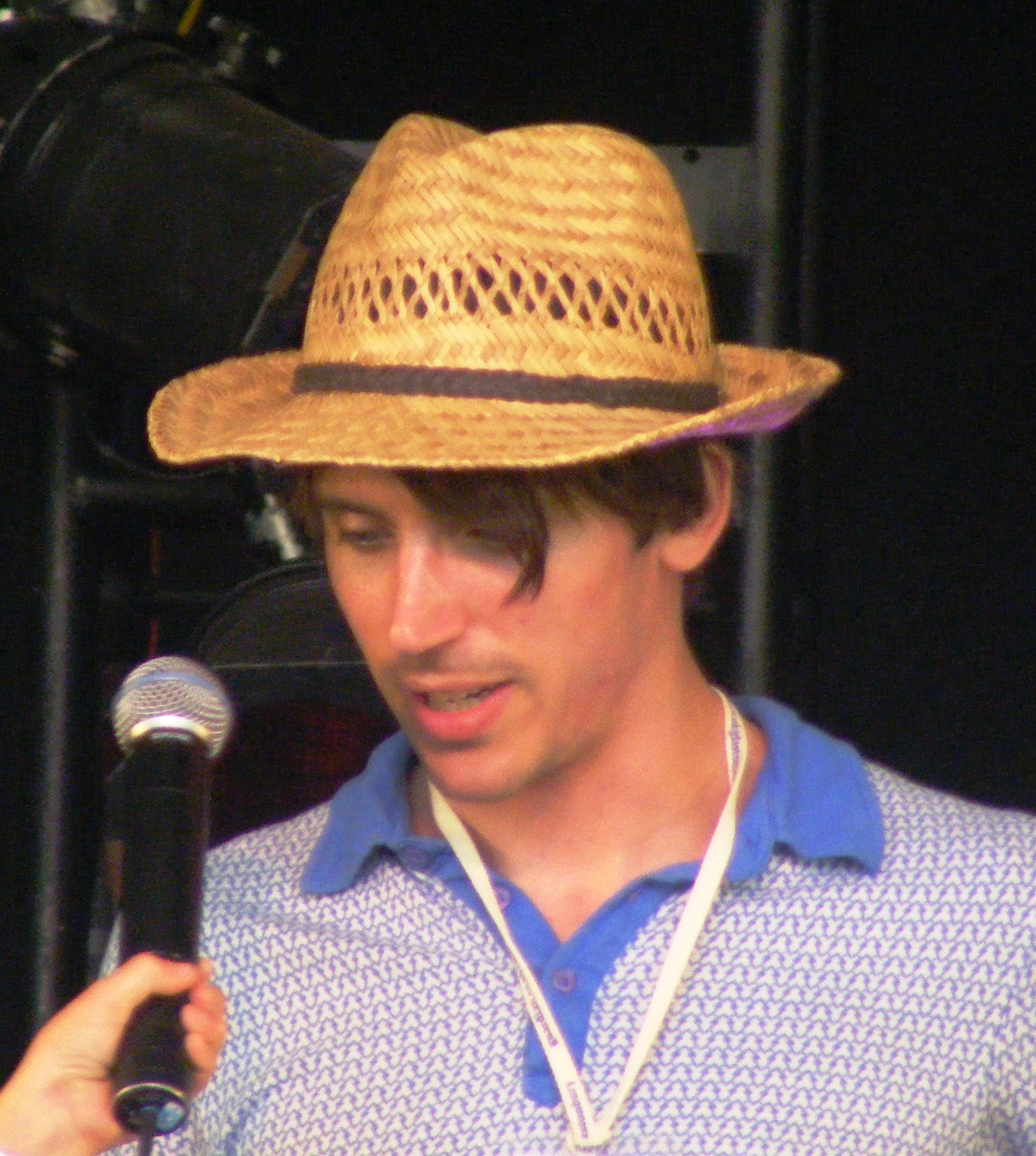 Ed Petrie on the Blazing Saddles stage at the 2010 Glastonbury Festival